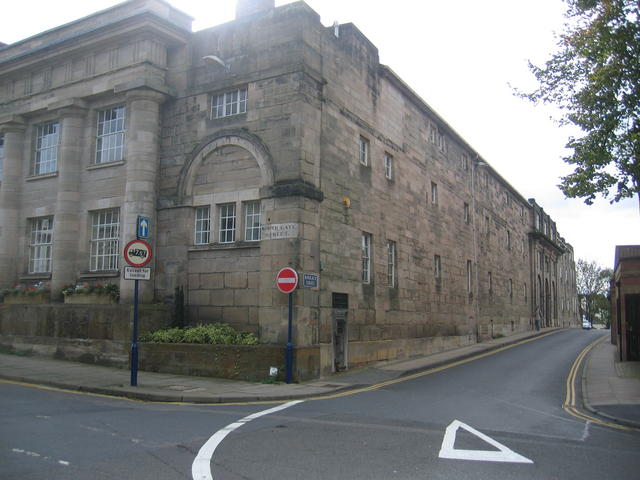 Warwick Old Gaol The county gaol was originally established here in 1676 although this building dates back to 1779. It is an early example of the use of the Doric style in public buildings. The gaol was moved to the Cape in 1860 and the building became a barracks for the militia. In 1932 it changed use again, this time as County Council offices. An old prison door has been set in to the wall close to the corner of the building, just to the right of the no entry sign to commemorate the building's former use. A 257408 provides a public reminder.